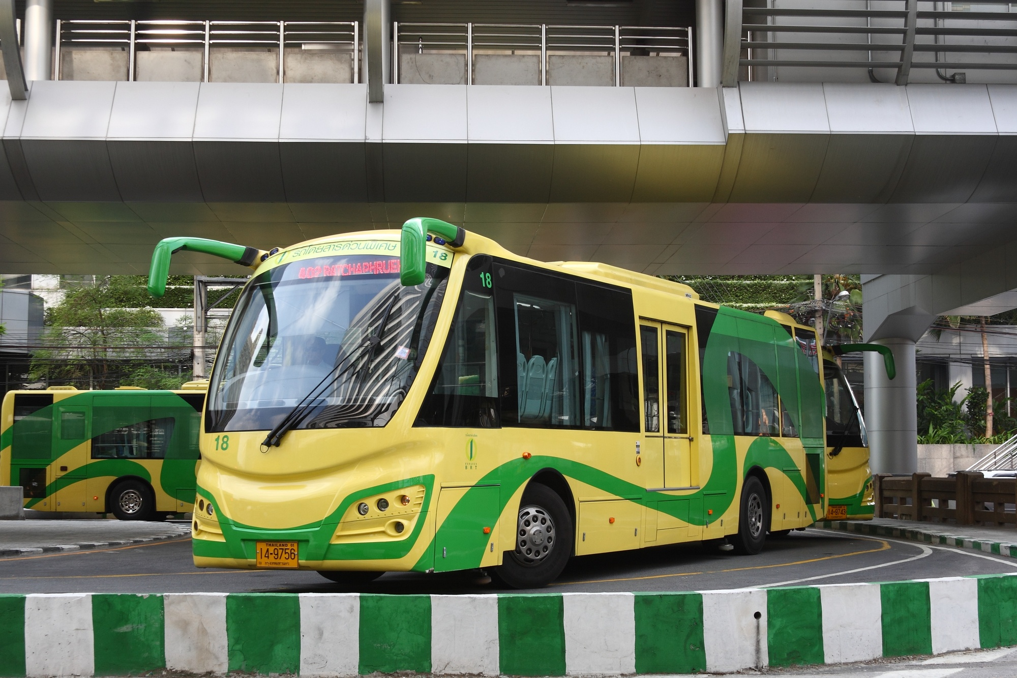 Bangkok BRT. Sunlong SLK6125CNG.